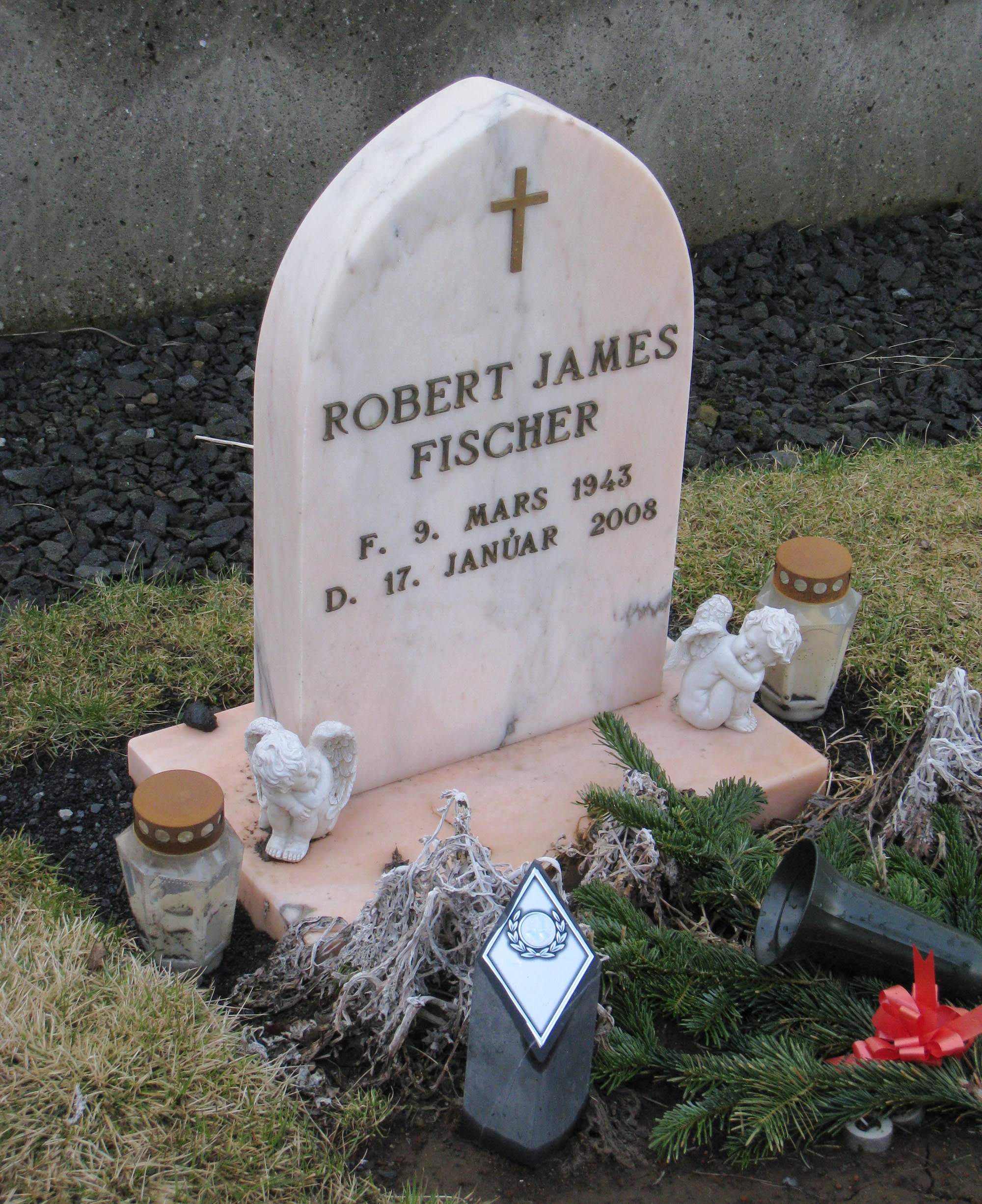 The grave of Robert James "Bobby" Fischer (March 9, 1943 – January 17, 2008). Laugardaelir Church Cemetery, Selfoss, Iceland.